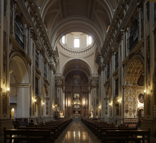 Colegiata de san Isidro; Madrid, Comunidad de Madrid, Madrid, Spain; ; ref: PM_070949_E_Madrid; La Colegiata de San Isidro, tambièn llamada Colegiata de San Isidro el Real; La Colegiata de San Isidro, also called Colegiata de San Isidro el Real; Photographer: Paul M.R. Maeyaert; © Paul M.R. Maeyaert; ; Cultural heritage; Cultural heritage/Cathedral; Europeana; Europe/Spain/Madrid; Wiki Commons